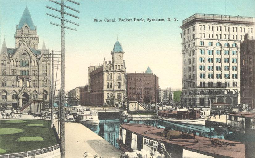 Erie Canal, packet dock, Syracuse, New York. This section of the Erie Canal was filled in 1925 and today comprises Erie Boulevard and Clinton Square.